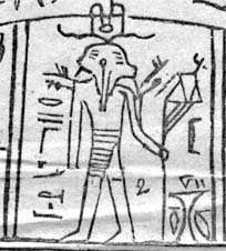 Detail of Figure No. 2 from Facsimile No. 2 from the Times and Seasons